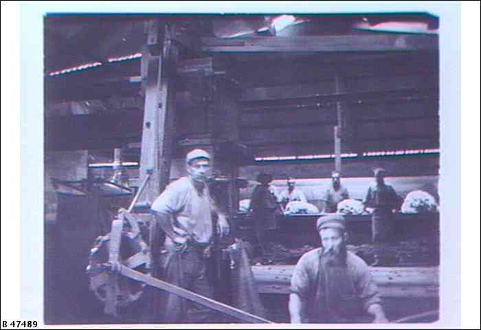 Shearing Shed at Nilpena c1897